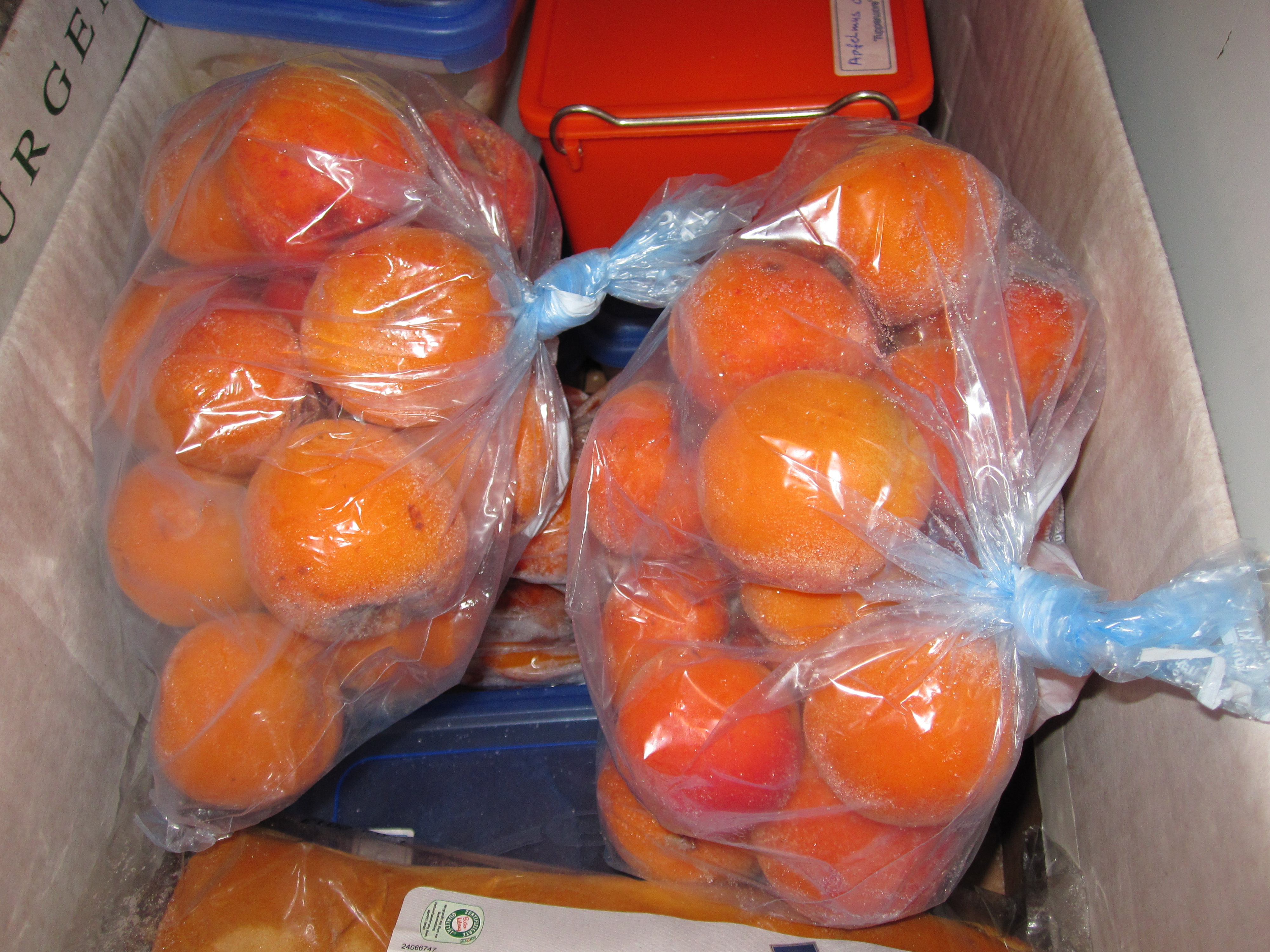 Freezing apricots.Sweet apricots from the Wachau in the chest freezer.